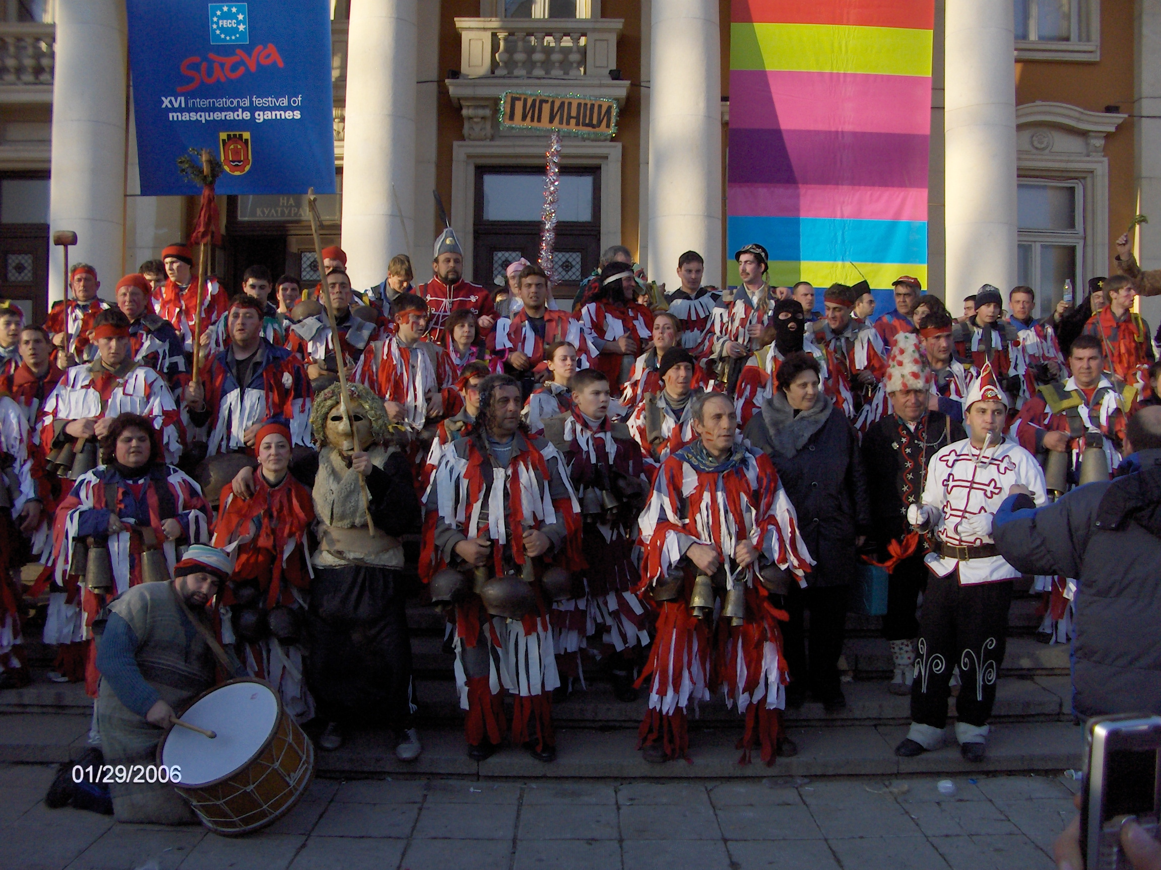 The Kukeri band in village Gigintsi, Bulgaria